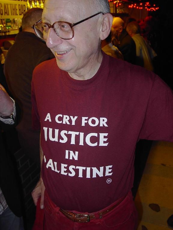 This is a picture of Gerald Kaufman taken at his Christmas Party December 2003 by me, Martin Rathfelder. I own the copyright.